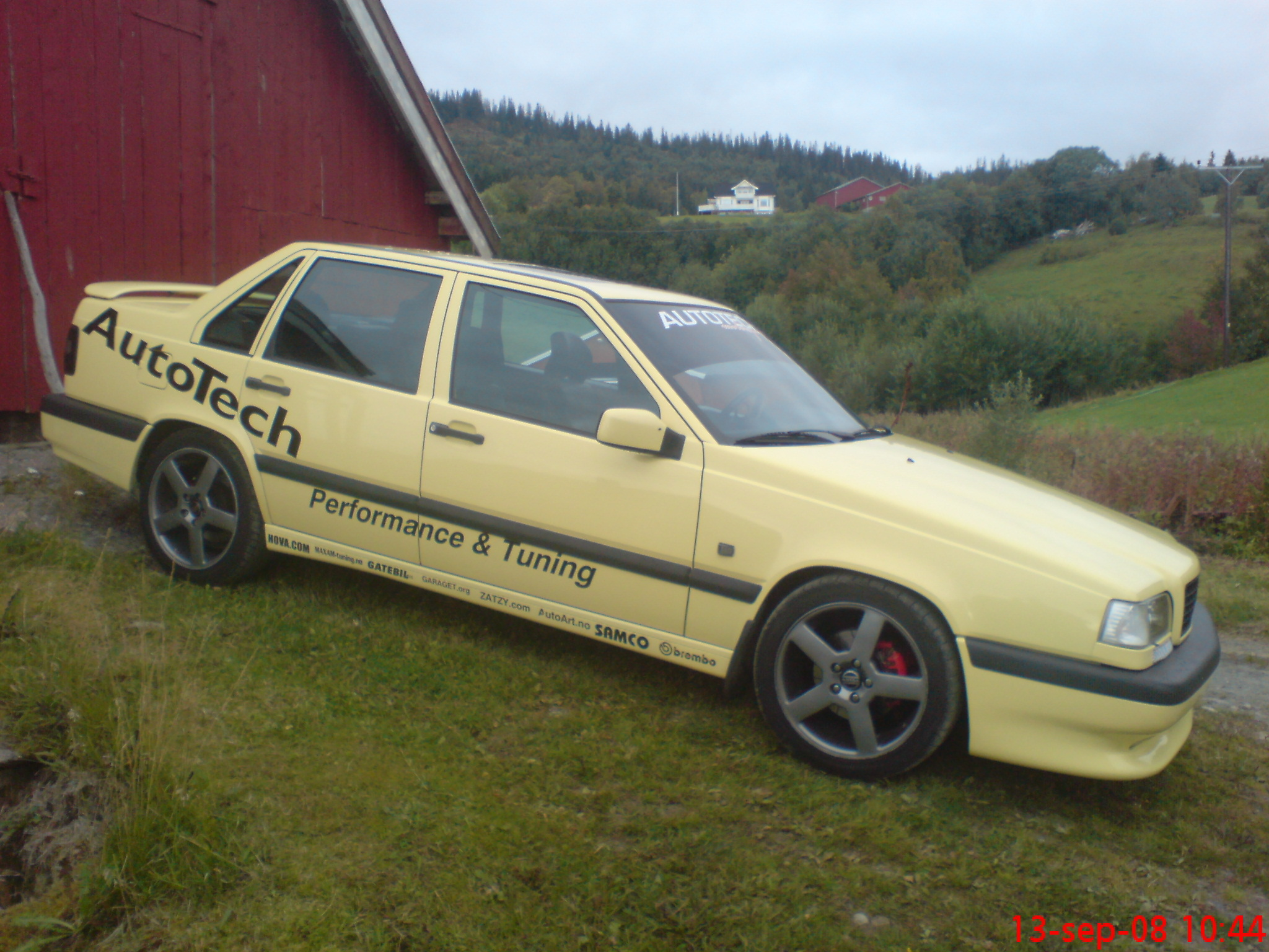 NORWAYS FASTEST VOLVO 854 T5R AUTOTECH SUPER LOAD MACHINE 550HK 650NM